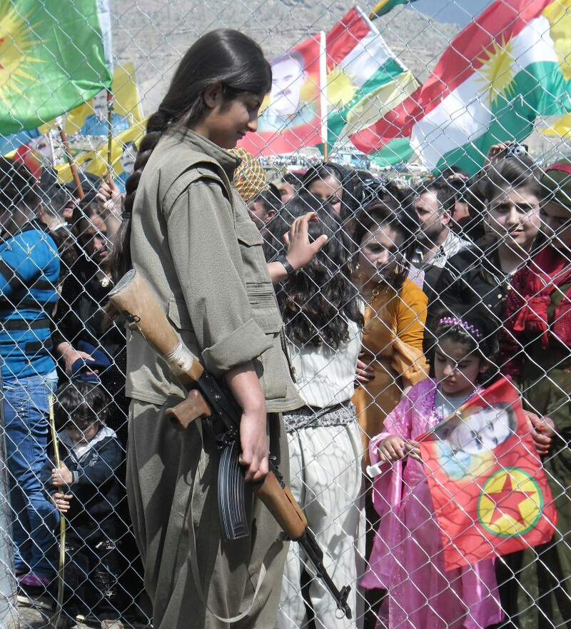 Kurdish PKK guerilla at the Newroz celebration in Qandil